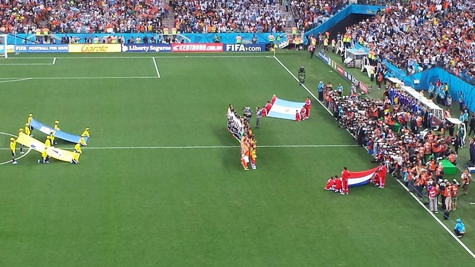 2014 FIFIA World Cup, Semi final, NED-ARG. The Netherlands and Argentina line up before the match